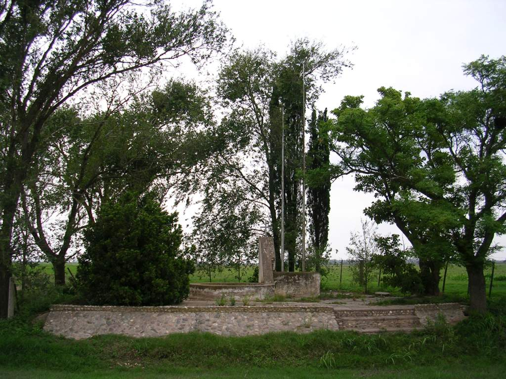 Monolith of the Battle of Laguna Larga. To meters of the national route nº9 km 642.